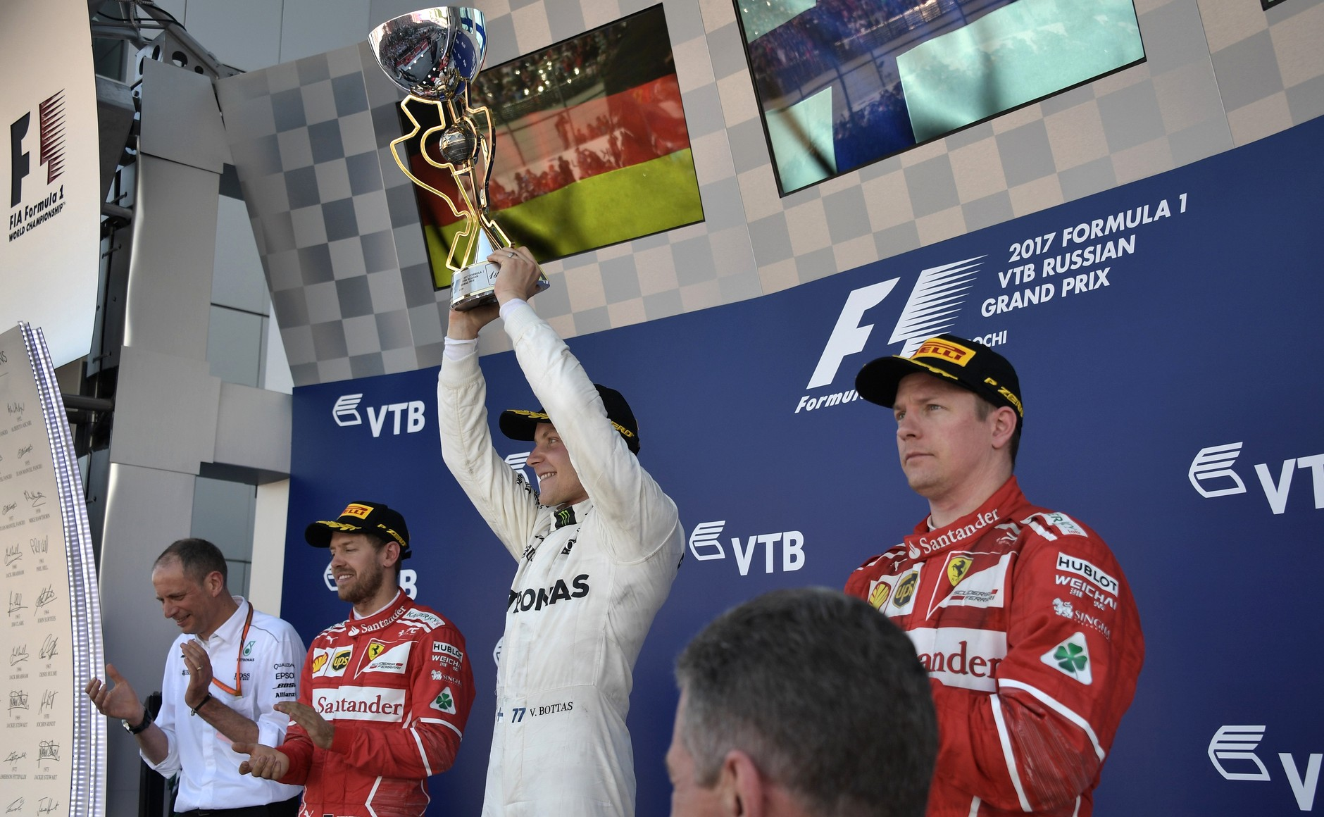 2017 Russian Grand Prix